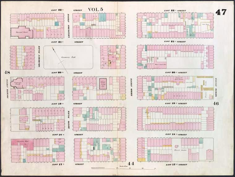 Image Title: [Plate 47: Map bounded by East 22nd Street, Second Avenue, *East 17th Street, Fourth Avenue.] Creator: Perris, William -- Cartographer Additional Name(s): Perris & Browne -- Publisher Medium: Lithographs -- Hand-colored Item/Page/Plate: Plate 47 Source: Atlases of New York city. / Maps of the city of New York. Source Description: 1 atlas (7 v.) : col. maps ; 68 cm. Location: Stephen A. Schwarzman Building / The Lionel Pincus and Princess Firyal Map Division Catalog Call Number: Map Div.+++ (New York City) (Perris, W. Maps of the city of New York. 1857) Digital ID: 1268337 Record ID: 667175 Digital Item Published: 6-30-2005; updated 2-23-2010